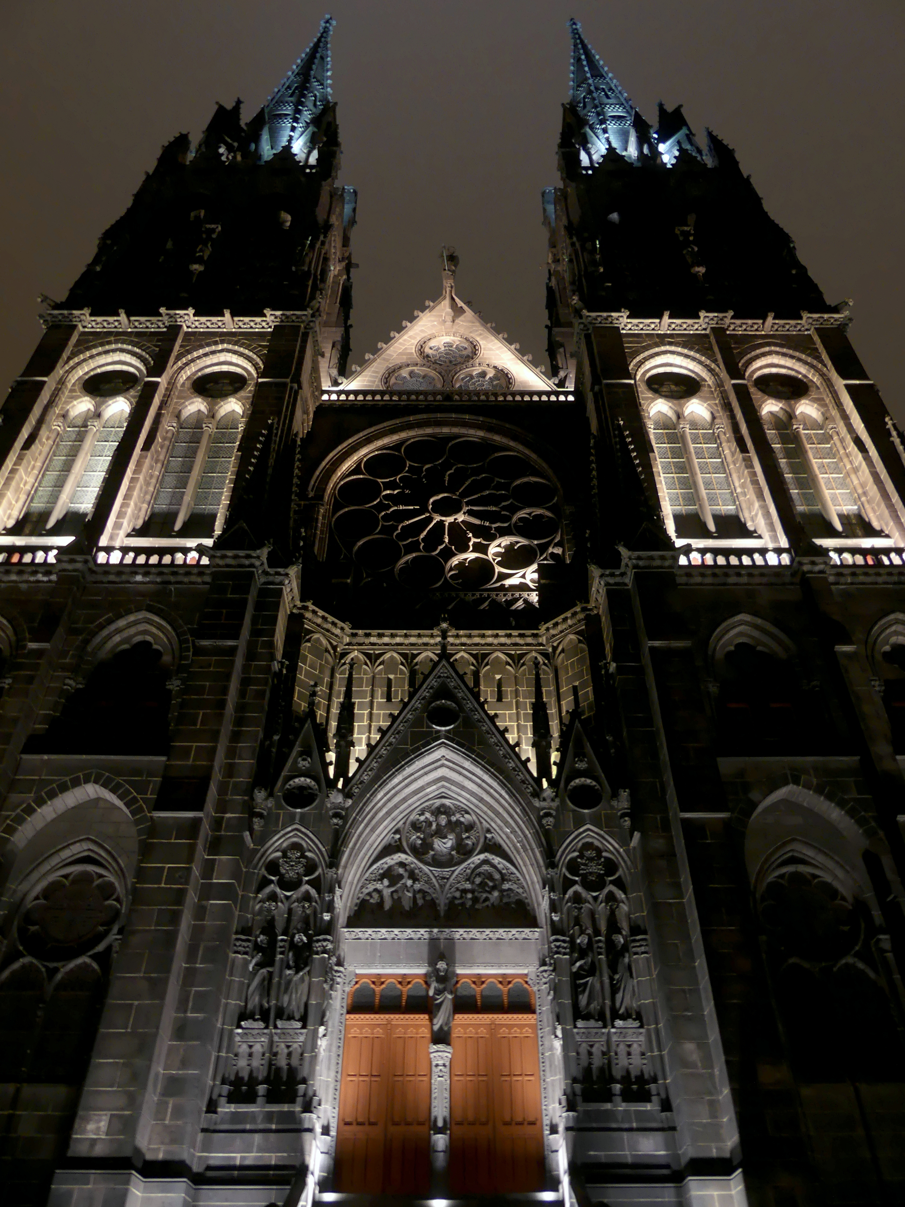 Sight, by night, of the top of Notre-Dame de l'Assomption cathedral, in Clermont-Ferrand, Puy-de-Dôme, France.